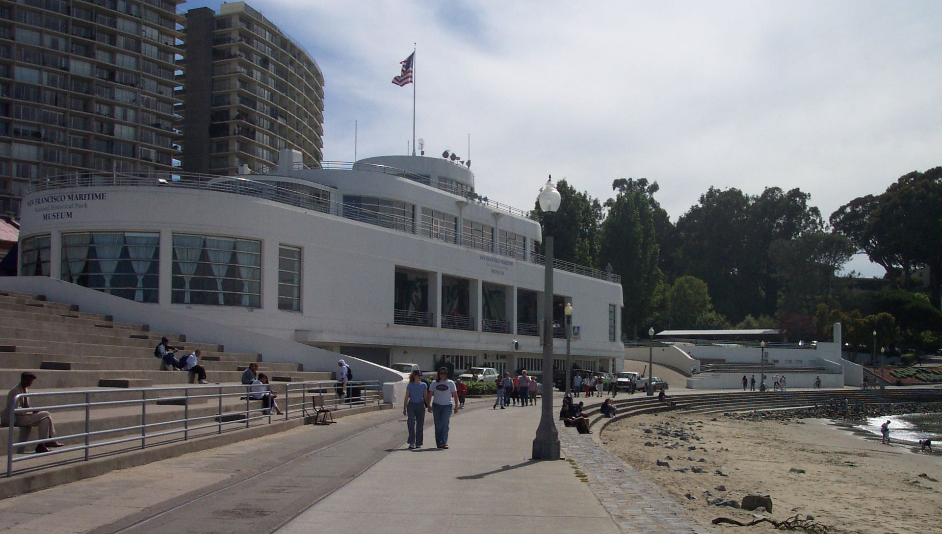 San Francisco Maritime Museum of the San Francisco Maritime National Historical Park in Aquatic Park. The buildings in the background are pejoratively known as San Francisco's Buck Teeth, and their building (which cut off many maritime views) led to San Francisco's passage of building height limits, in the interest of view preservation.